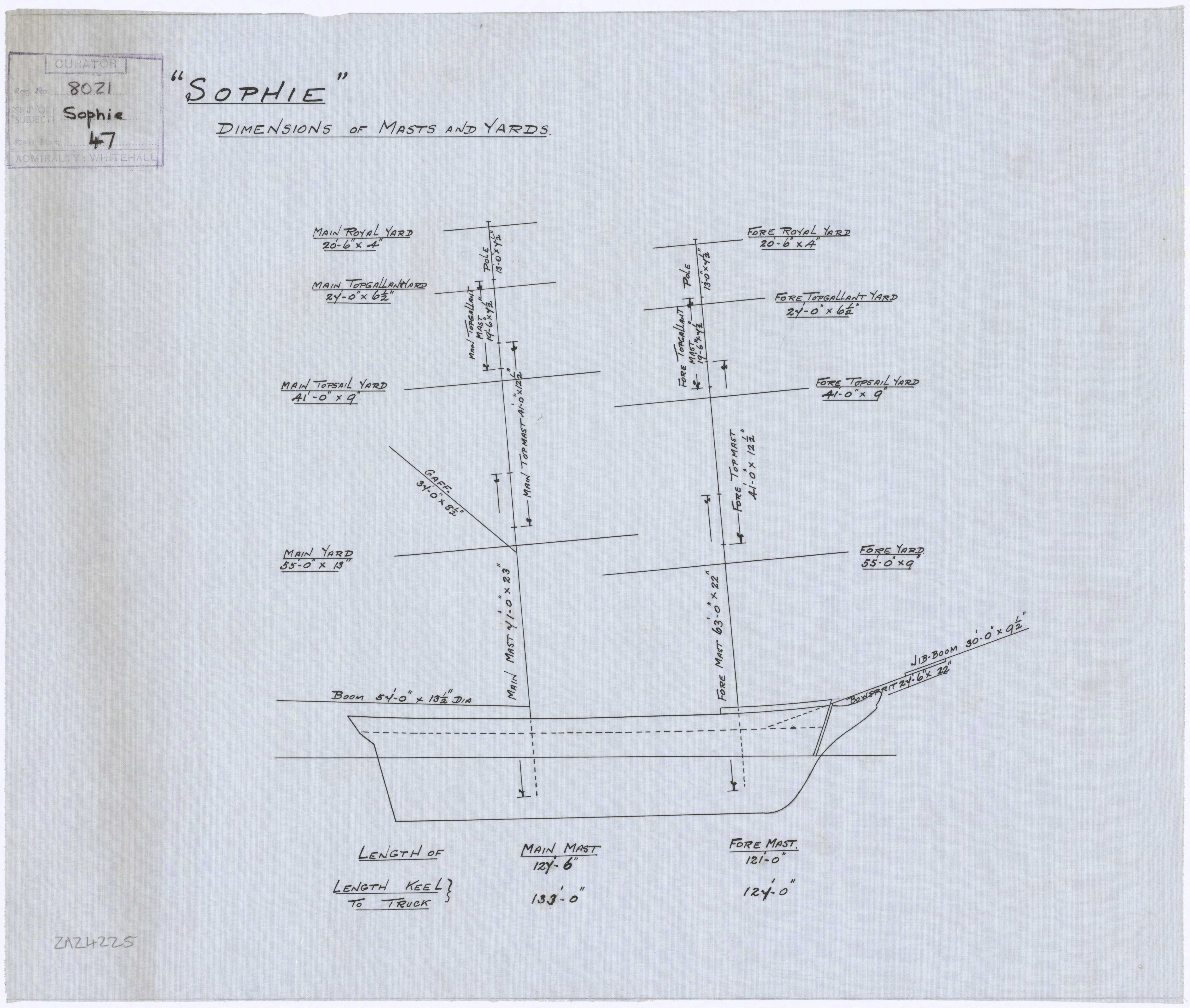 Sophie (1809) No Scale: Plan showing the profile with dimensions of masts and yards for Sophie (1809), an 18-gun Brig Sloop. masts & yards